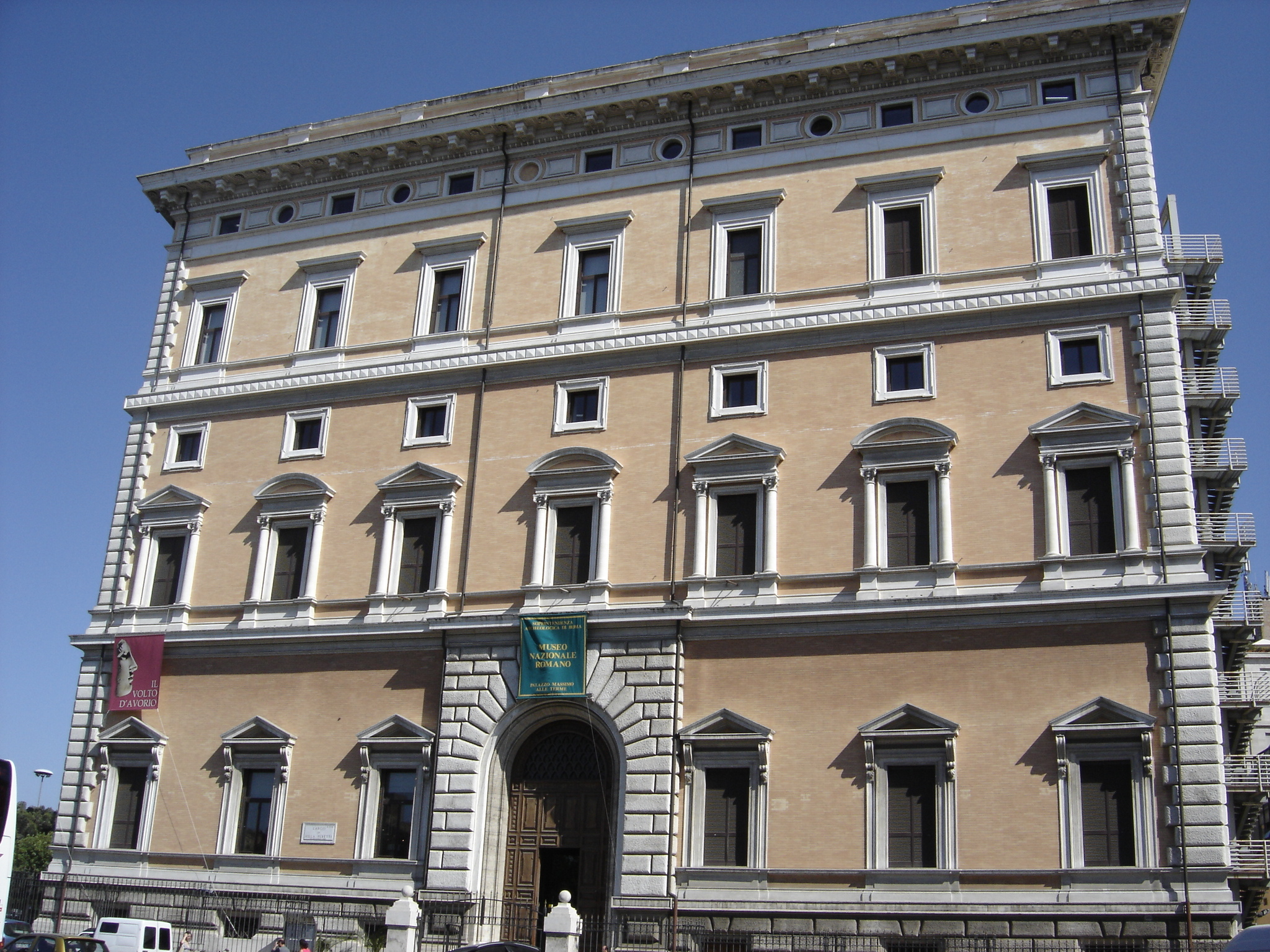 I took this photo myself. Enjoy!